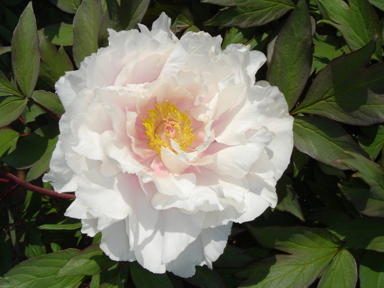 Moutan Peony, 牡丹. Location:Japan. Possibly the cultivar 'Yukidoro'